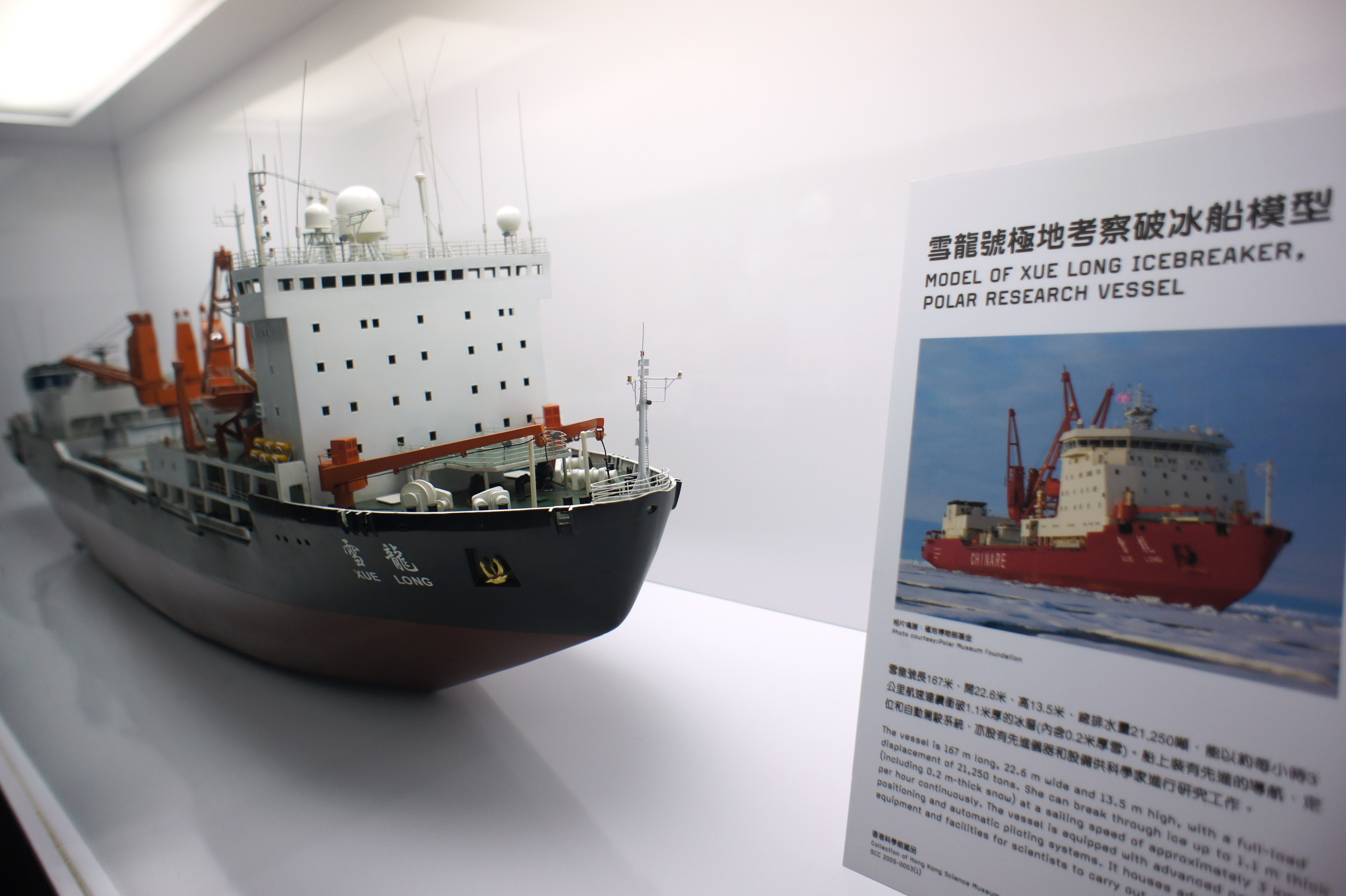 A model of the Chinese icebreaker vessel Xue Long displayed at the Hong Kong Science Museum. IMO Number: 8877899 MMSI Number: 412863000 Callsign: BNSK Length: 167 m Beam: 25 m